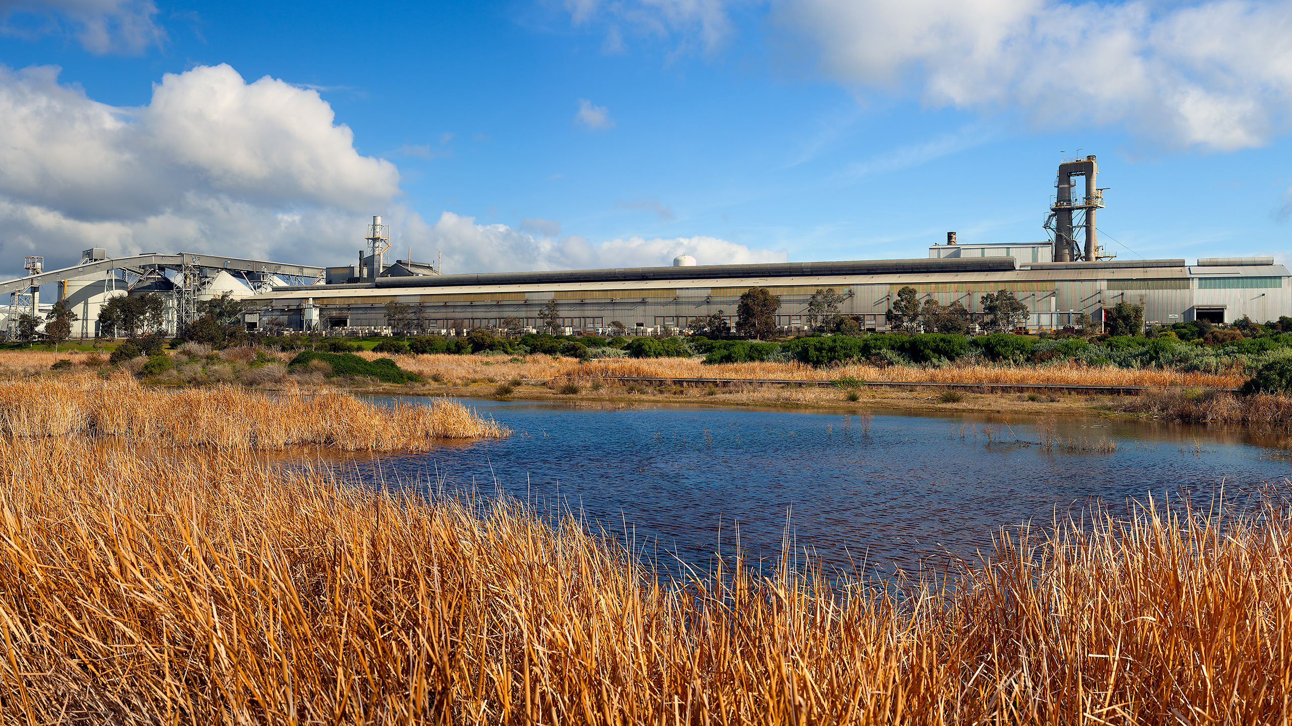 Point Henry aluminium smelter taken June 2013 from the public road on the East side.